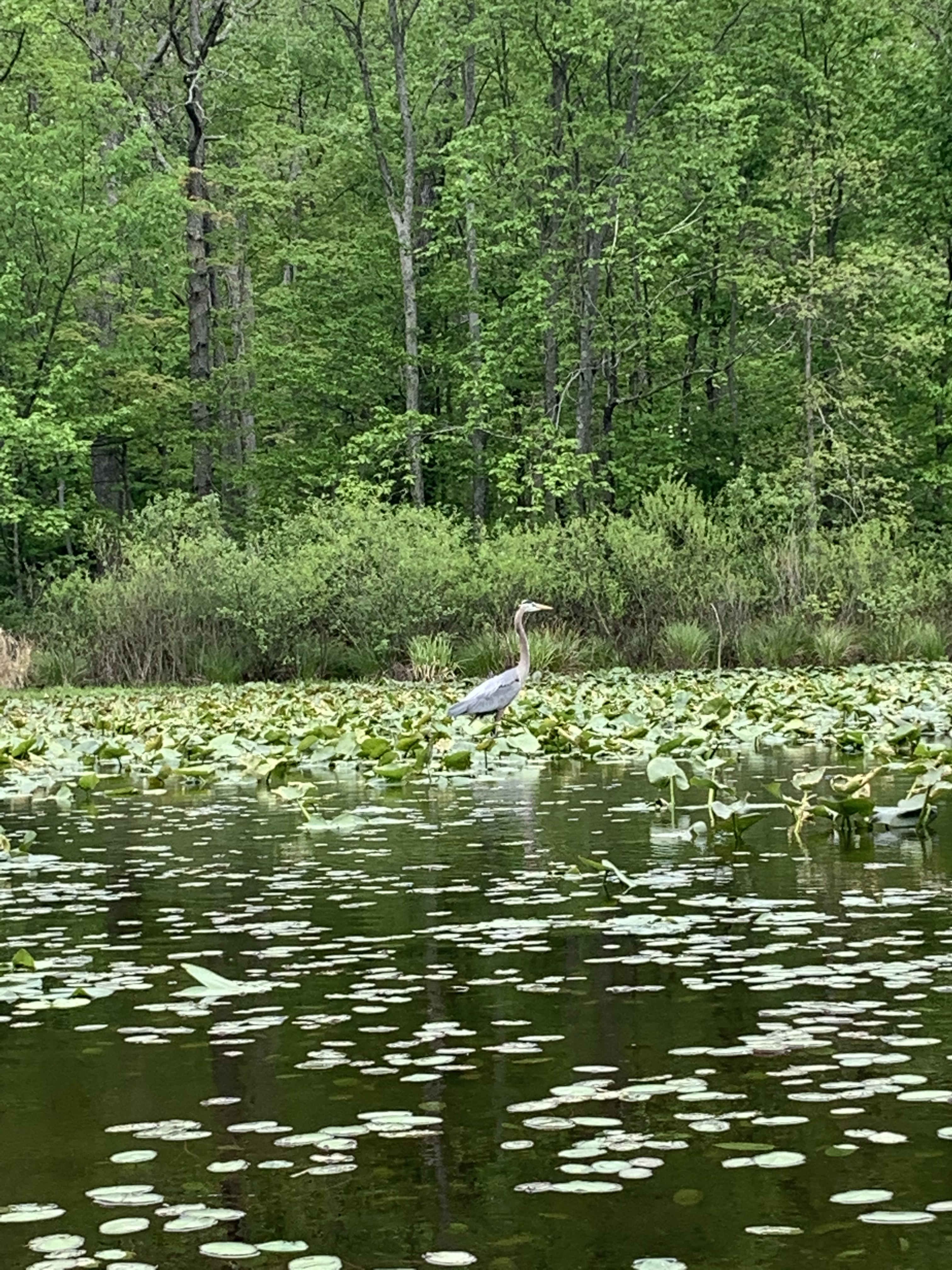 A Blue Heron at Lake Towhee Park in May 2020 near Lillipads.